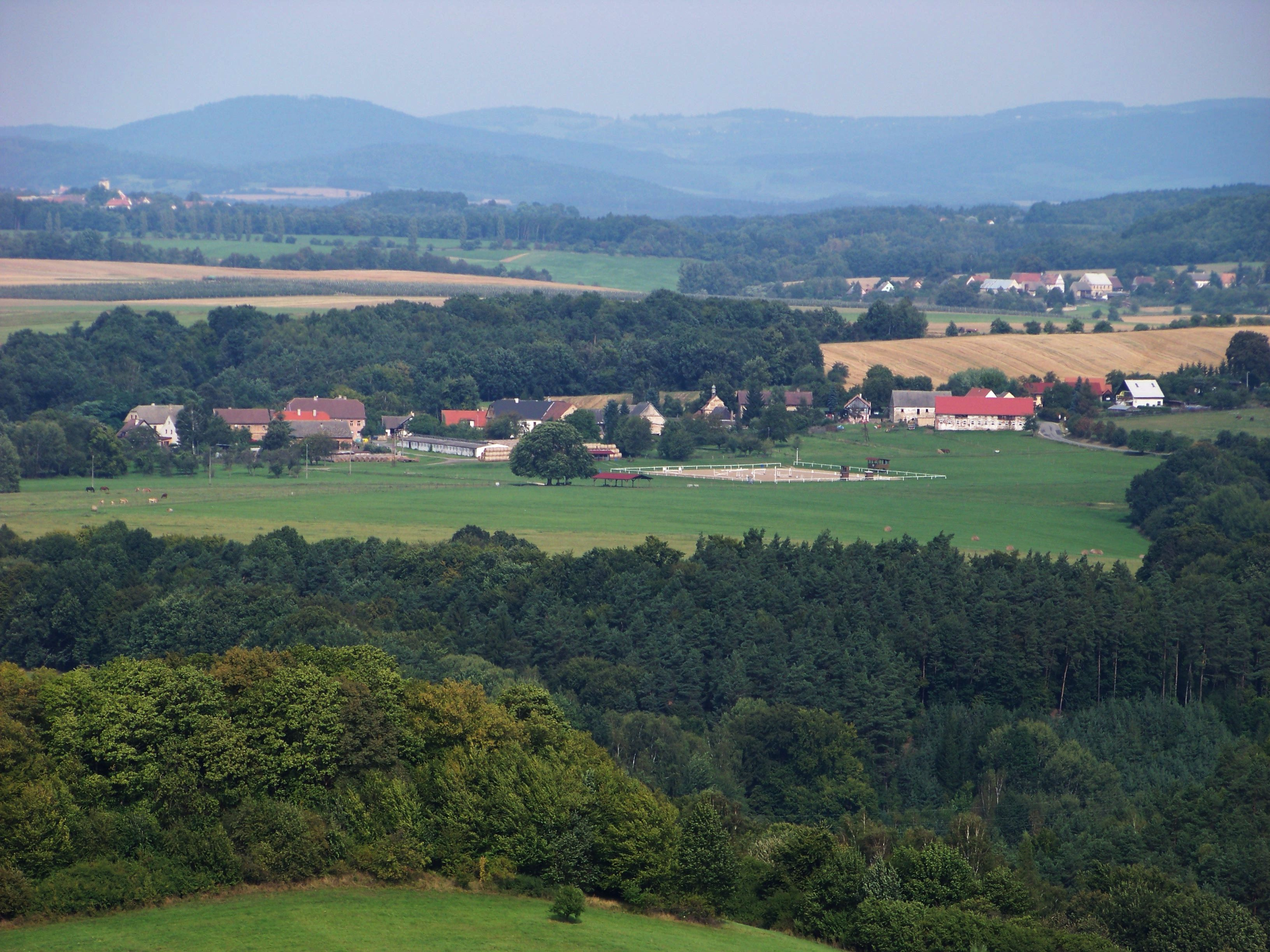 Vrchovany, Česká Lípa District, Liberec Region, Czech Republic. Seen from Vysoký vrch. - OpenStreetMap (Info)